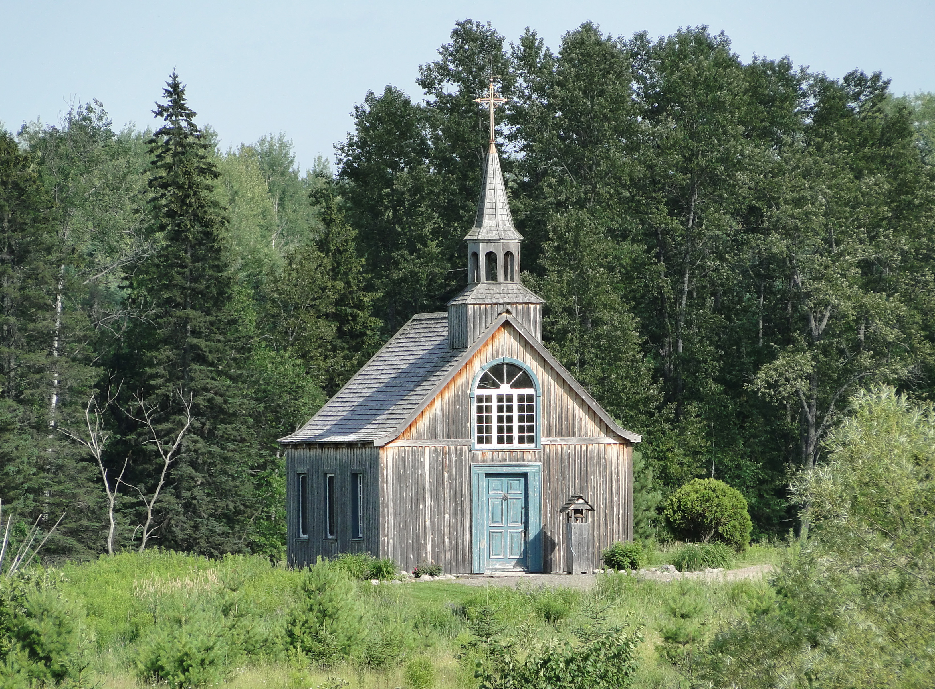 Chapel used for the miniseries Marguerite Volant near Saint-Paulin, province of Quebec, Canada